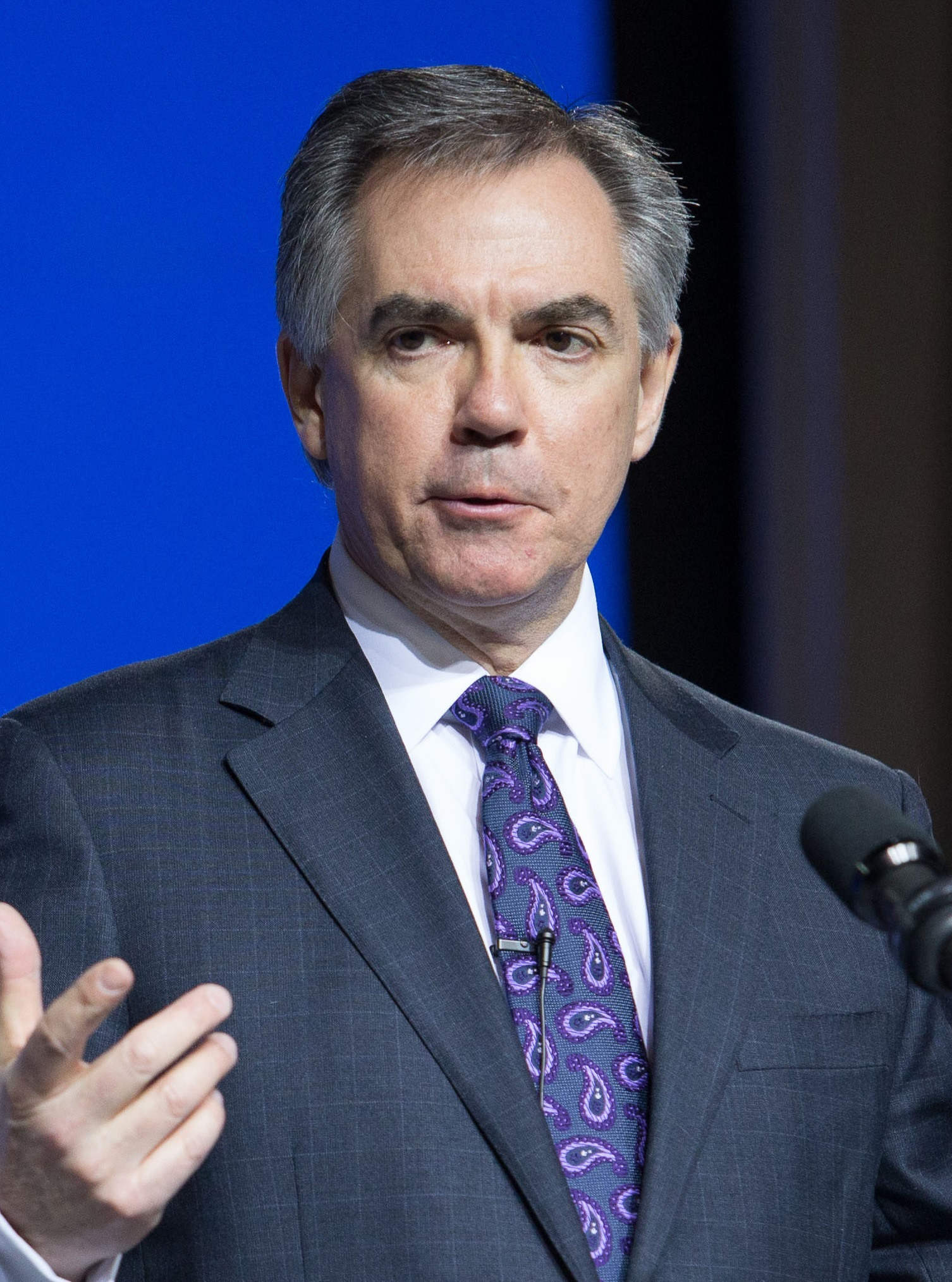 Jim Prentice